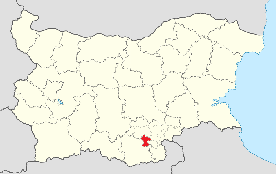 Location map of Stambolovo Municipality within Bulgaria and Haskovo Province